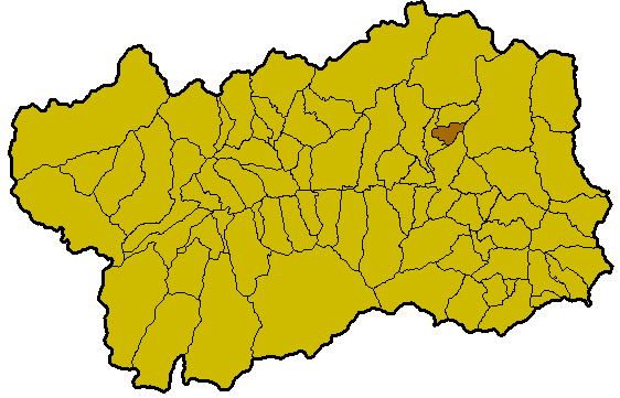 Map showing the location of La Magdeleine, Valle d'Aosta